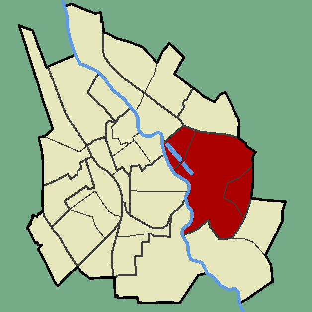 Locator map of Annelinn, Tartu, Estonia.